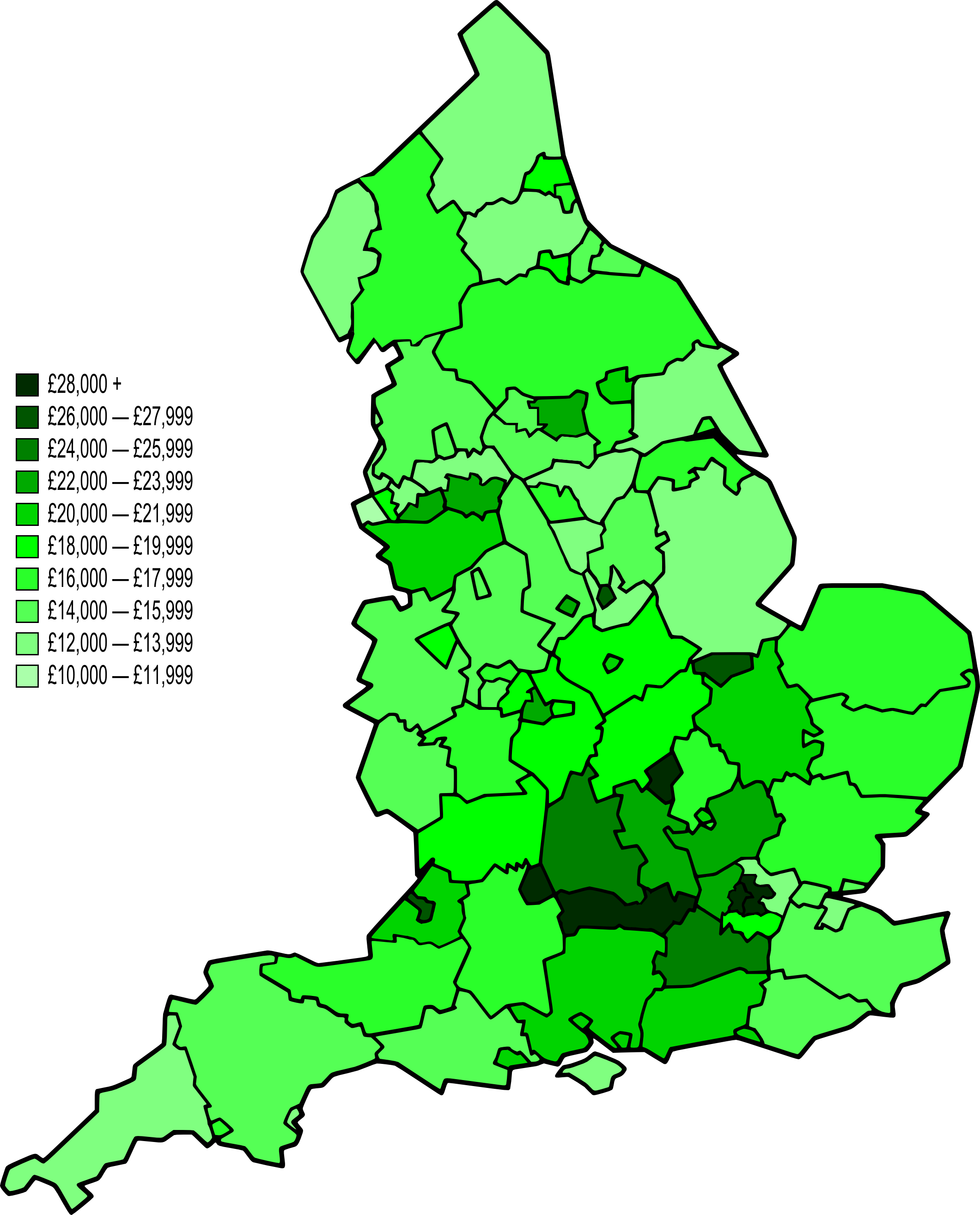 A map of England divided by NUTS 3 level subdivisons. They are coloured on a ten shade scale of green with light green having the lowest average GVA per capita in 2007 to dark green for the highest. England average is £20,458.